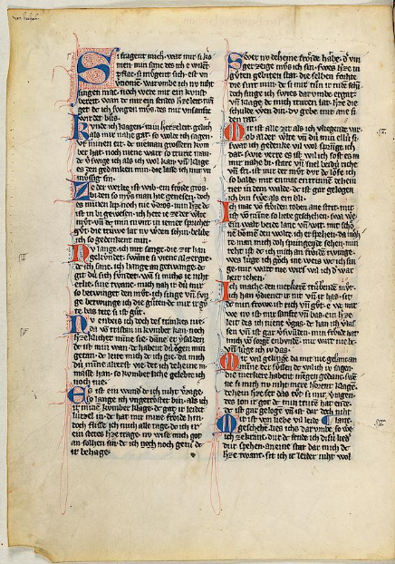 Die erste Seite von Berngers Liedern im Codex Manesse